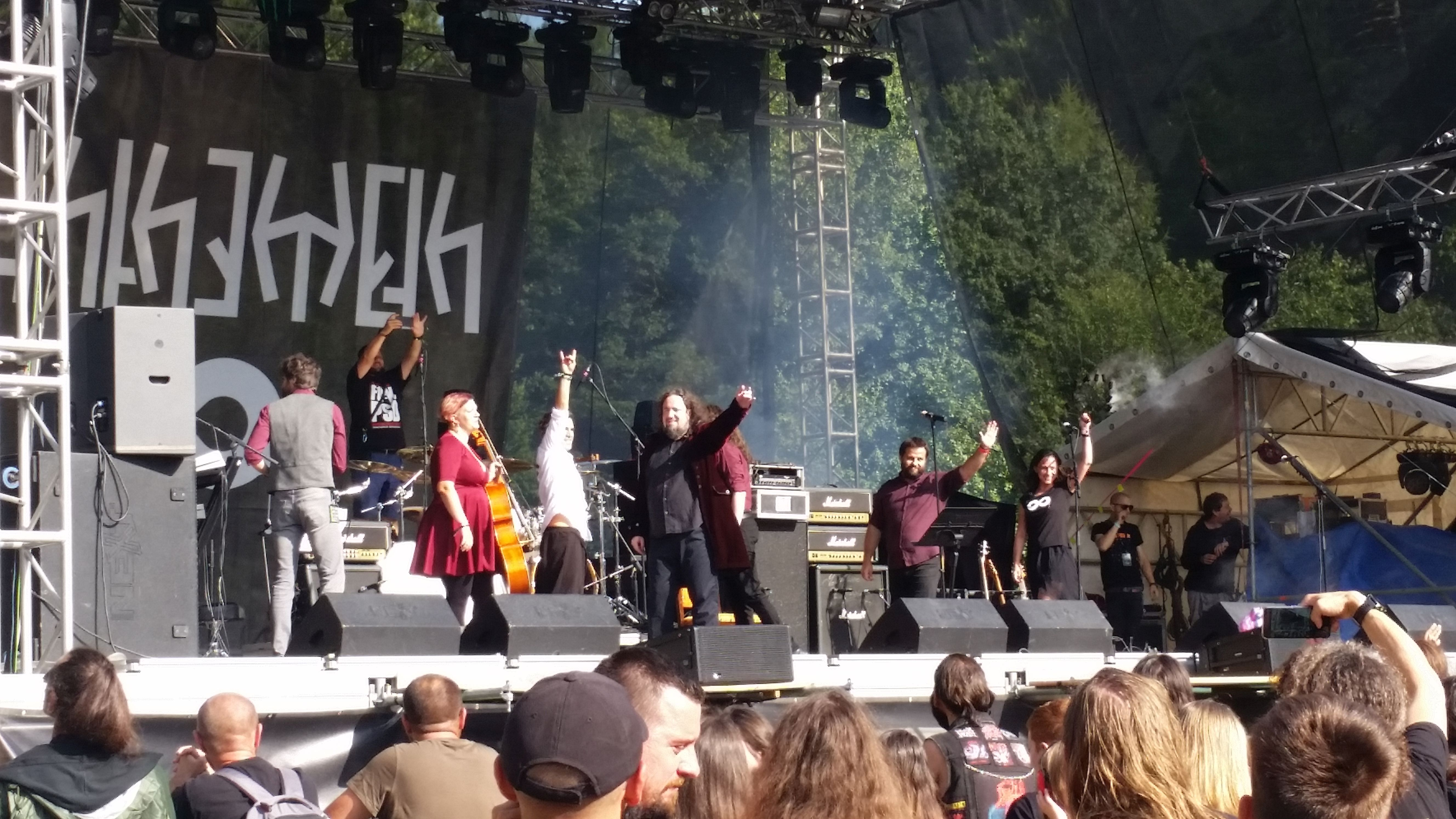 Hteththemeth live at Rockstadt 2019 in Râșnov, Romania, on 04 August 2019